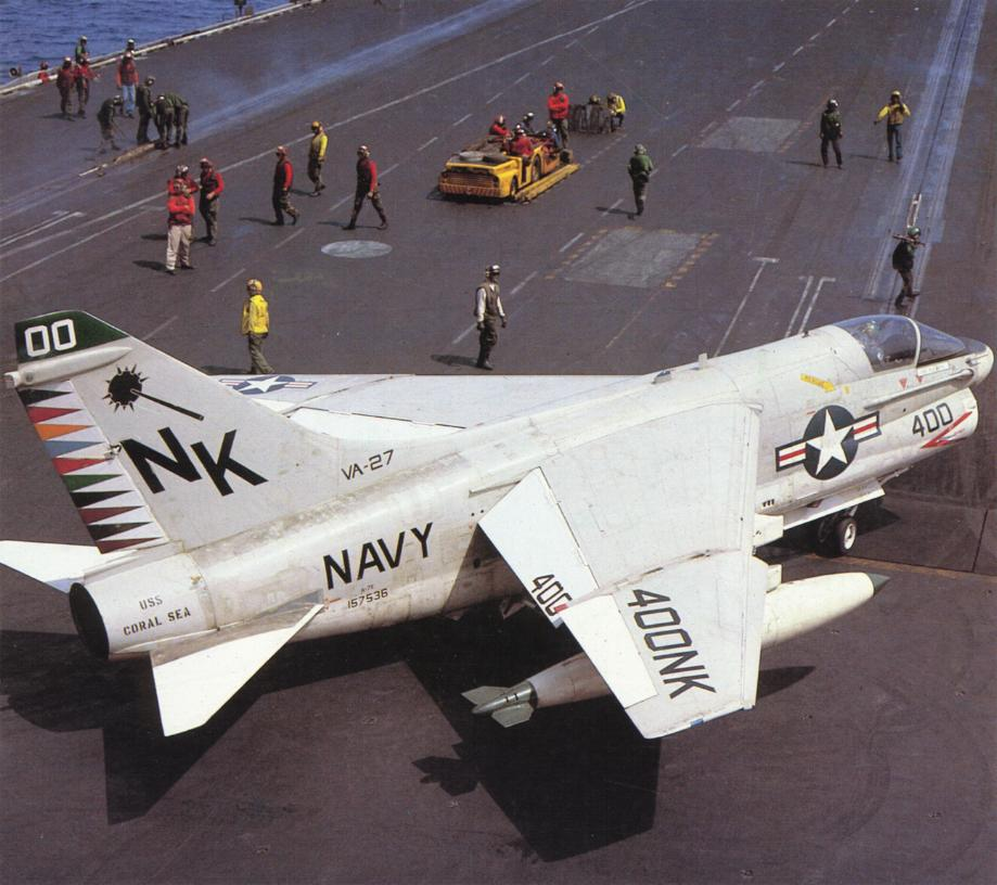 A U.S. Navy Ling-Temco-Vought A-7E-7-CV Corsair II (BuNo 157536) of Attack Squadron 27 (VA-27) "Royal Maces" in 1979-80. This aircraft was the personal aircraft of the "Commander Air Group (CAG)" of Carrier Air Wing 14 (CVW-14) which was deployed on the aircraft carrier USS Coral Sea (CV-43) to the Western Pacific and the Indian Ocean from 13 November 1979 to 11 June 1980. The A-7E 157536 (c/n E-192) was retired to the AMARC as 6A0189 on 15 August 1986.